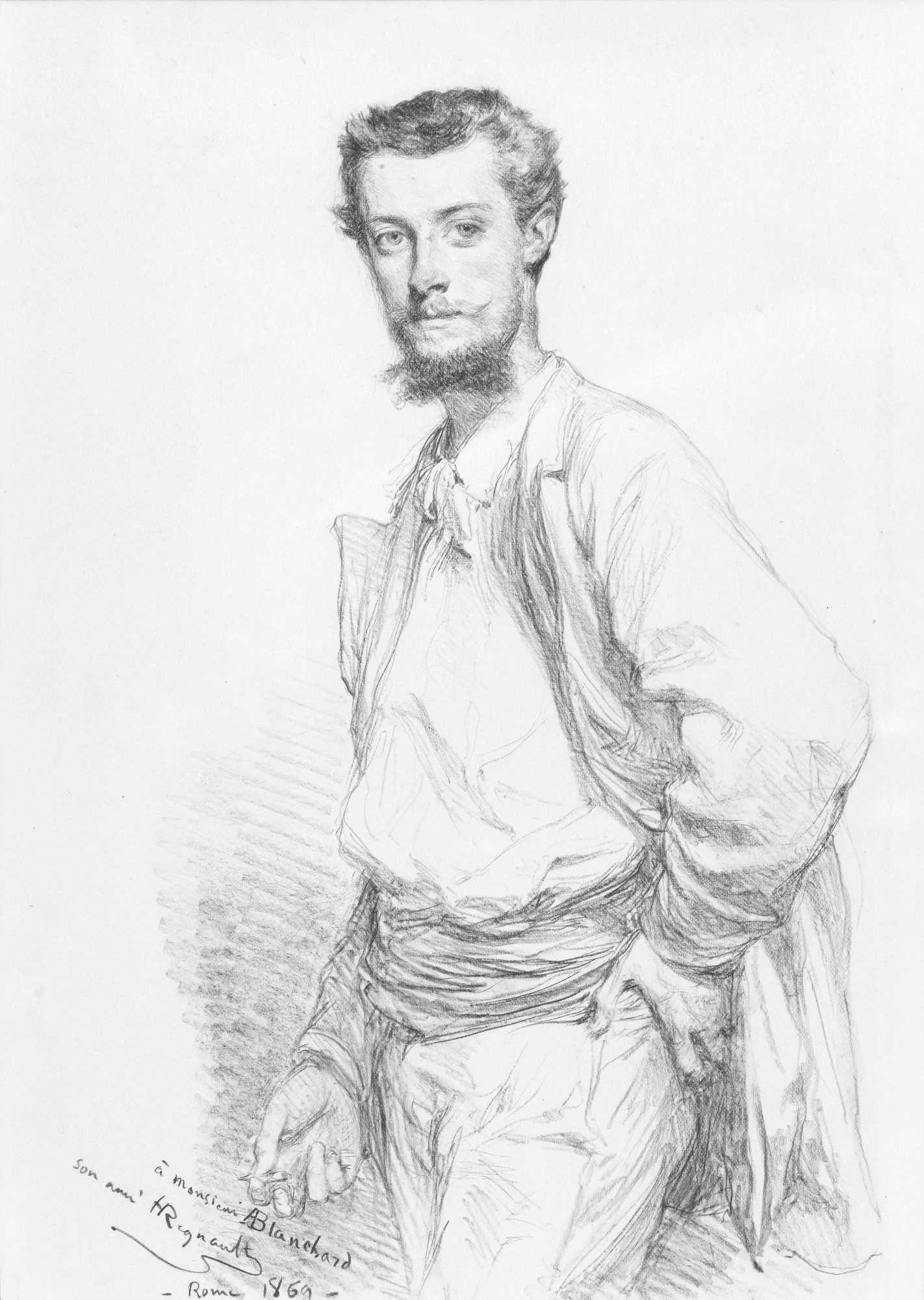 Edouard-Théophile Blanchard pencil on paper 30.8 x 21.7 cm signed b.l.: à monsieur E. Blanchard / Son ami H. Regnault / Rome 1869